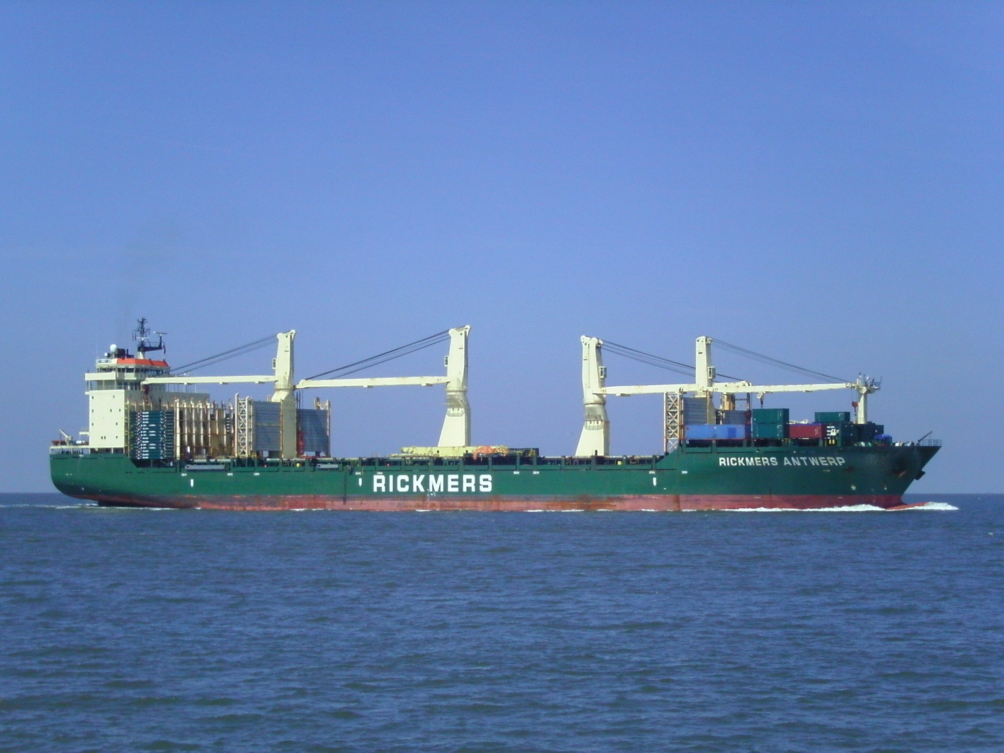 The superflex heavy multi-purpose container carrier Rickmers Antwerp inbound on the River Elbe near Cuxhaven